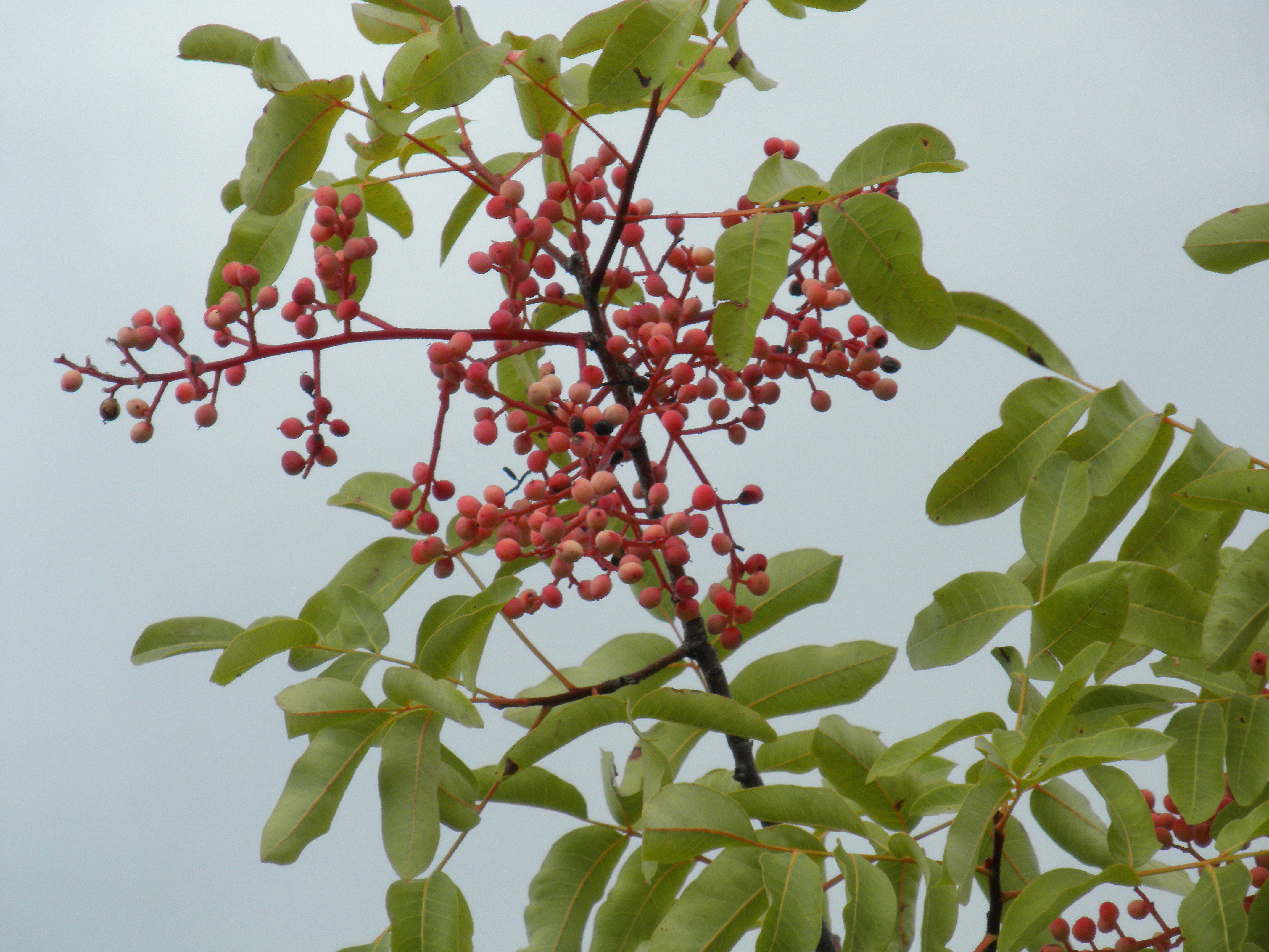 Pistacia terebinthus fruits close up, Dehesa Boyal de Puertollano, Spain